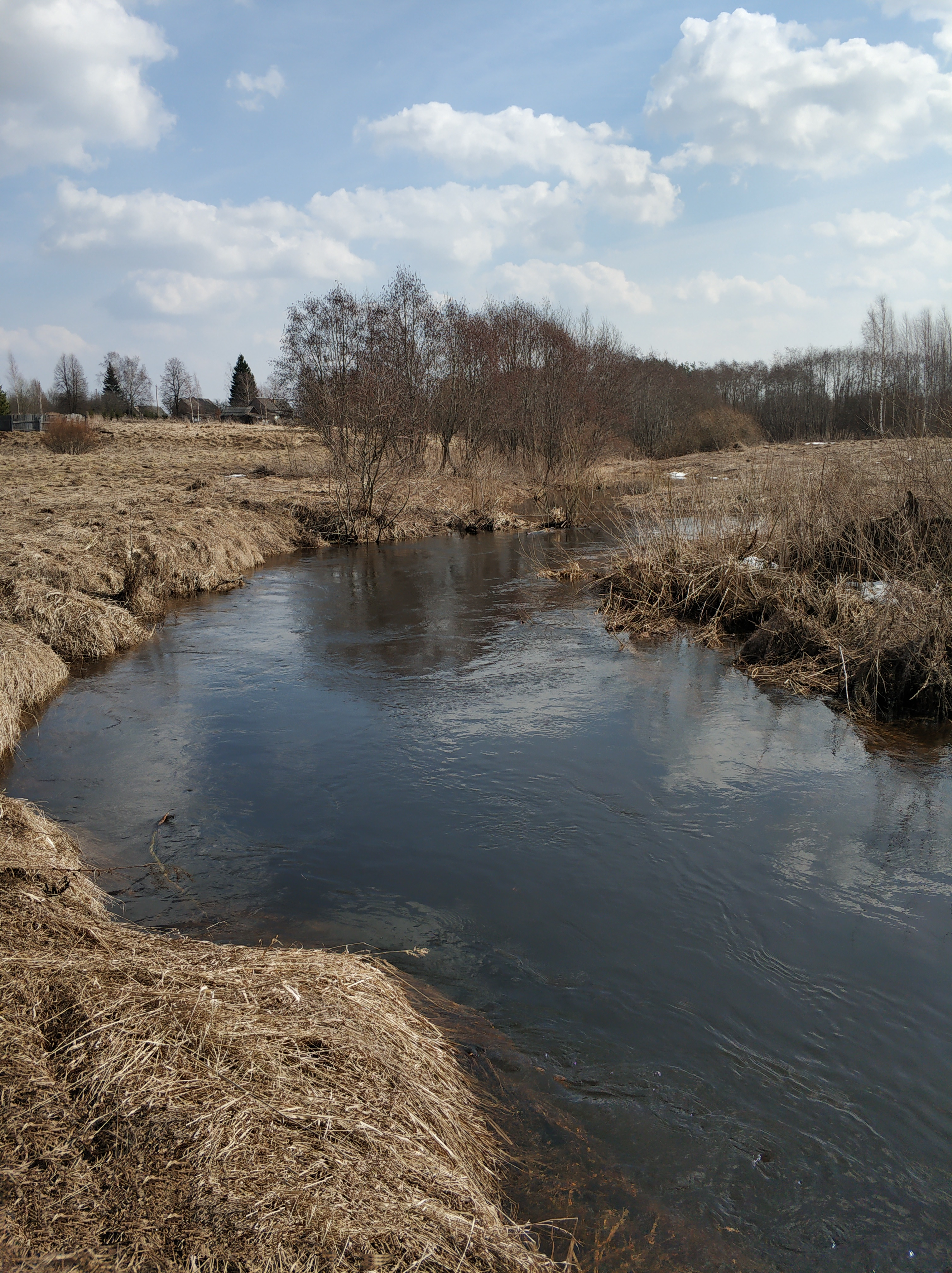 Dyma river in the middle reaches of the village of Yekaterinino, Safonovsky district, Smolensk region, Russia.